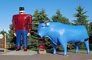 The first ever Statue of Paul Bunyan and Babe the Blue Ox. Located in Bemidji Minnesota.